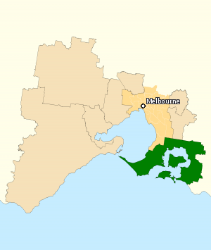 This image incorporates data that is: © Commonwealth of Australia (Australian Electoral Commission) 2009 Division of Flinders 2010